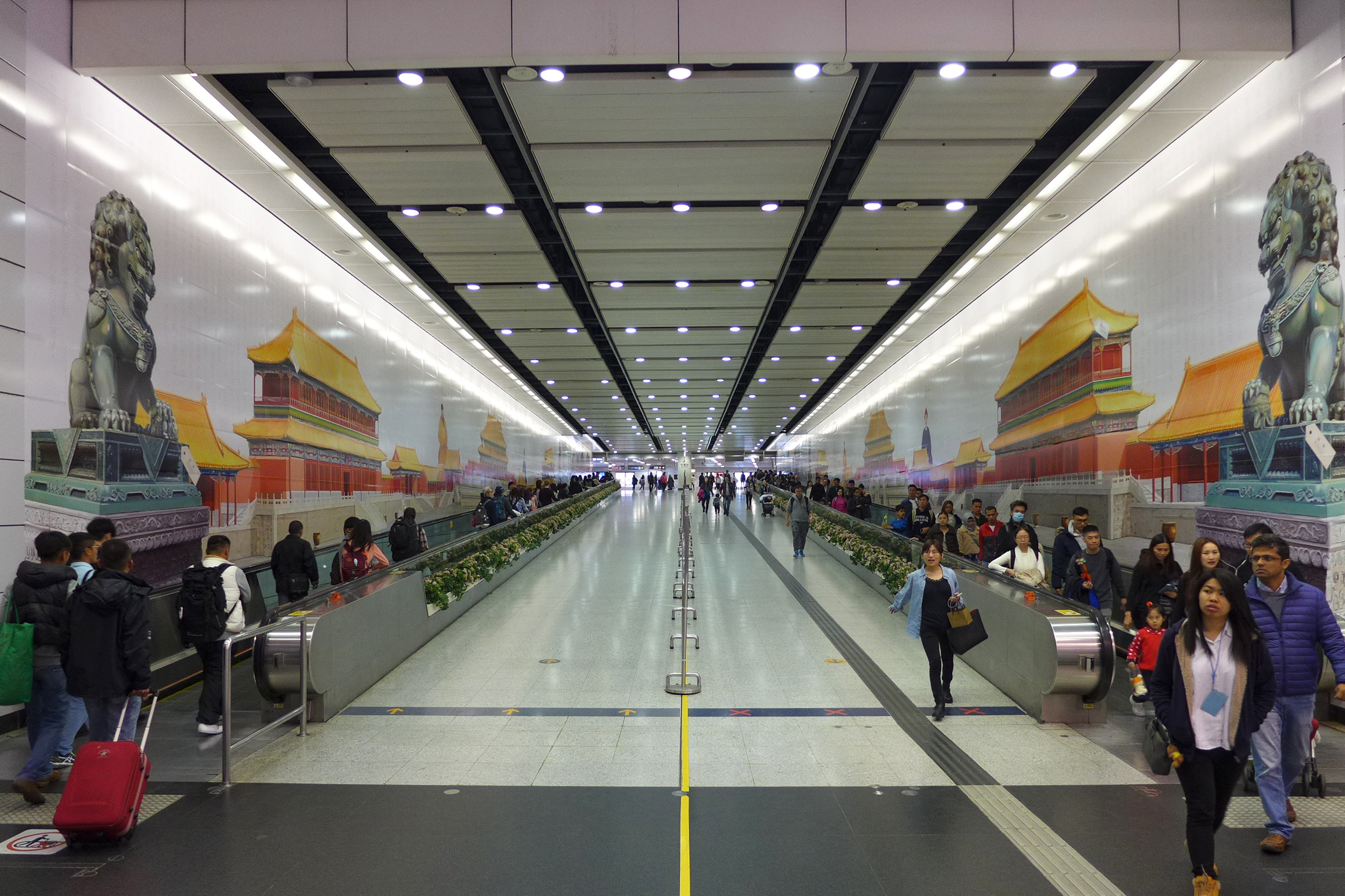 Hong Kong station access Forbidden City ad